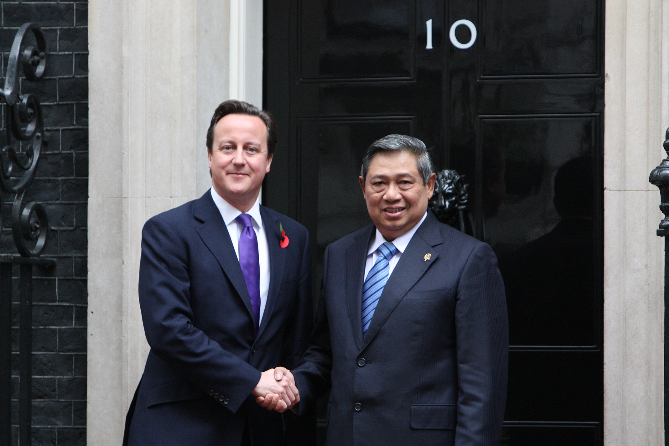 British Prime Minister David Cameron meeting with Indonesian President Yudhoyono. The gathering of the UN Secretary General’s High Level Panel (HLP) on the post-2015 development agenda coincides with the State Visit of the President of Indonesia. London is hosting discussions this week to explore the best ways to fight poverty and what should replace the Millennium Development Goals when they expire in 2015. The talks mark the first of three discussions on poverty eradication to be hosted in the countries of the HLP’s three co-chairs – British Prime Minister David Cameron, Liberian President Sirleaf and Indonesian President Yudhoyono. Terms of use This image is posted under a Creative Commons - Attribution Licence, in accordance with the Open Government Licence. You are free to embed, download or otherwise re-use it, as long as you credit the source as 'Foreign & Commonwealth Office/Patrick Tsui'.